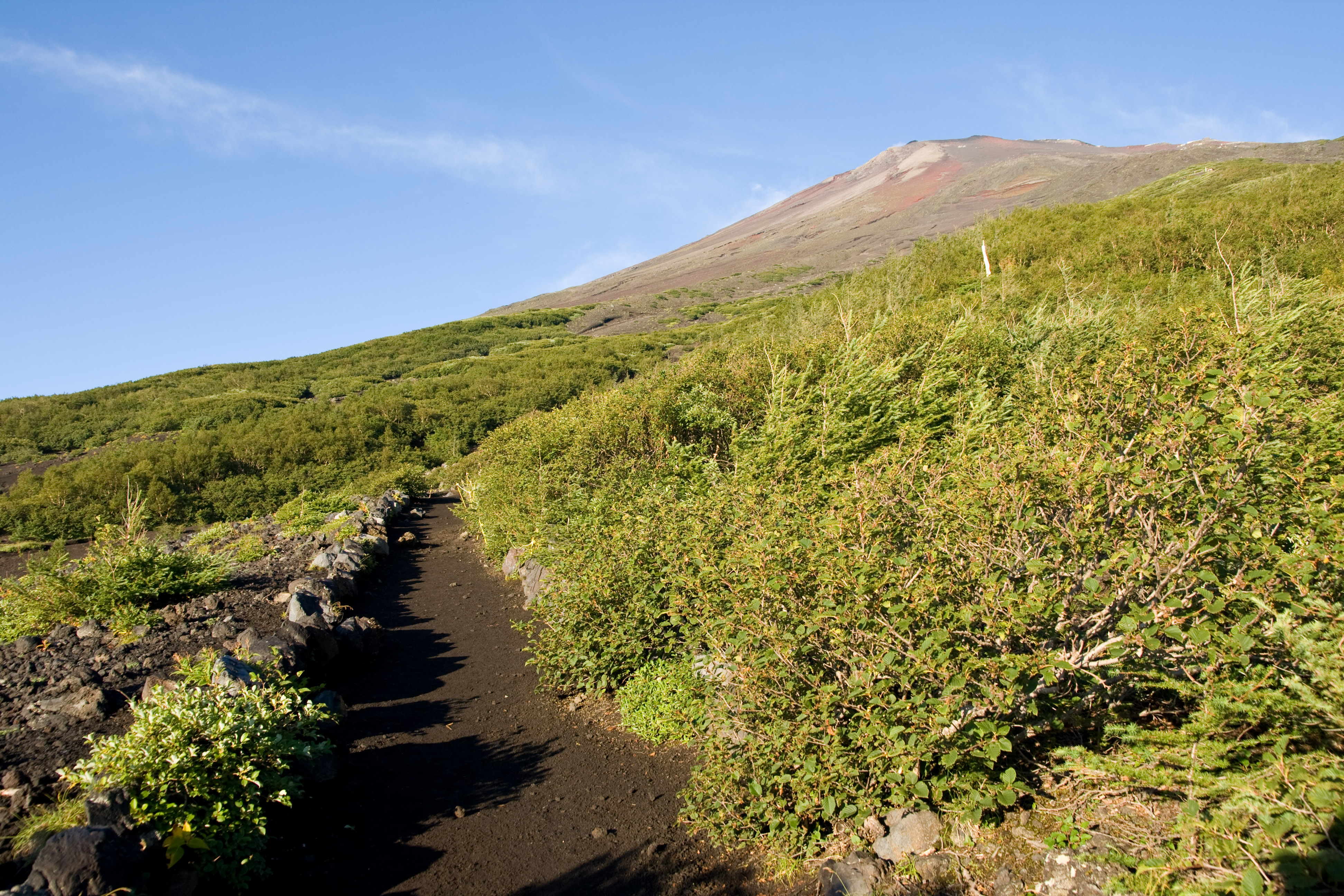 Mt.Fuji as seen from Subashiri trail (One of the mountain trail of Mt.Fuji), Honshu, Japan.